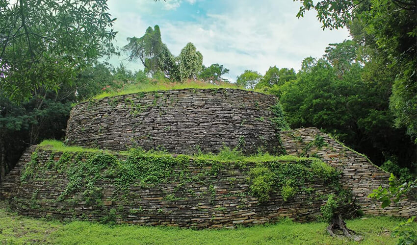 Another image of the largest and most important pyramid within the archaeological zone of El Sabinito near Soto la Marina, Tamaulipas, Mexico.